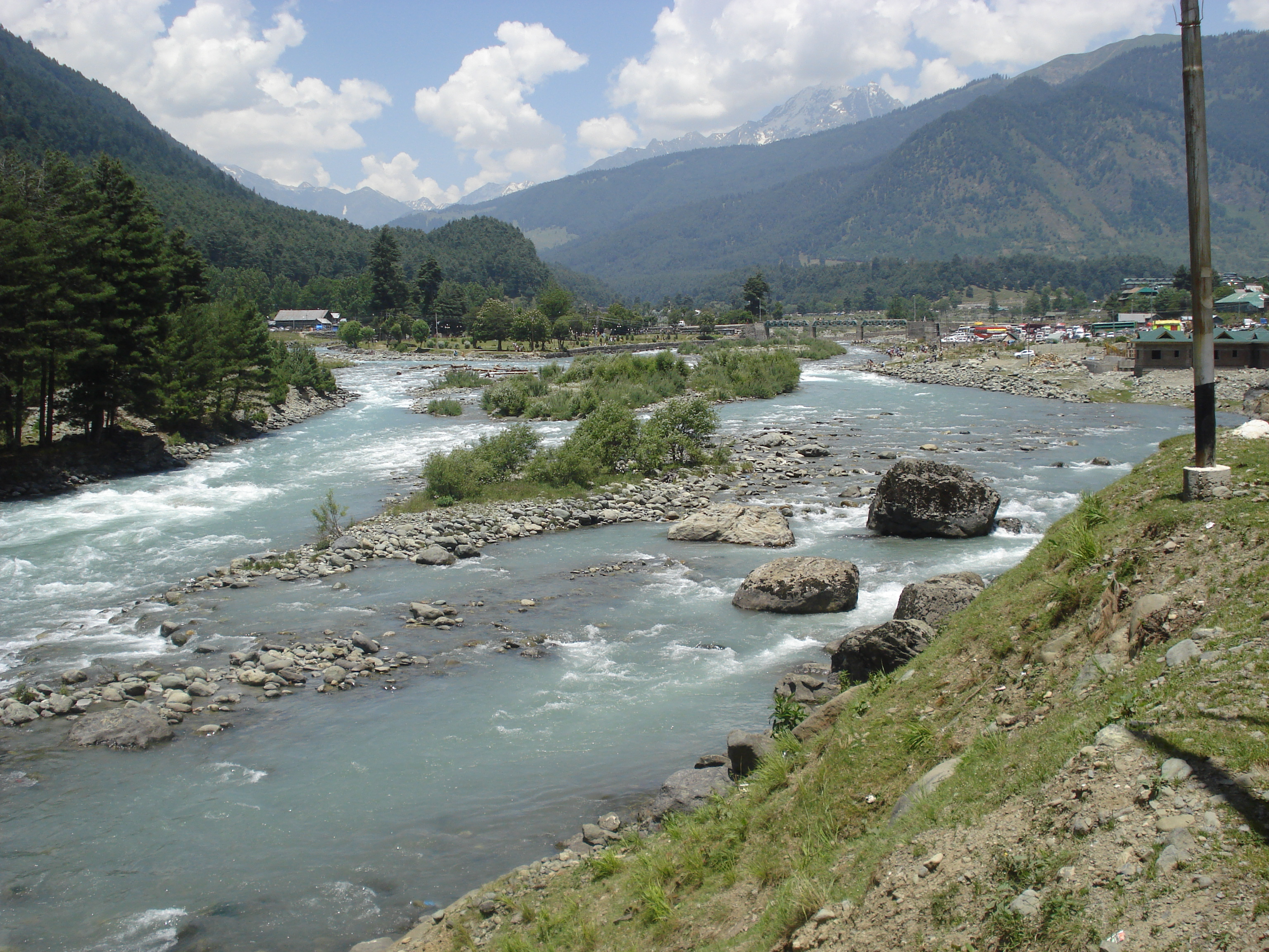 river Yatra Lidder River, Pahalgam